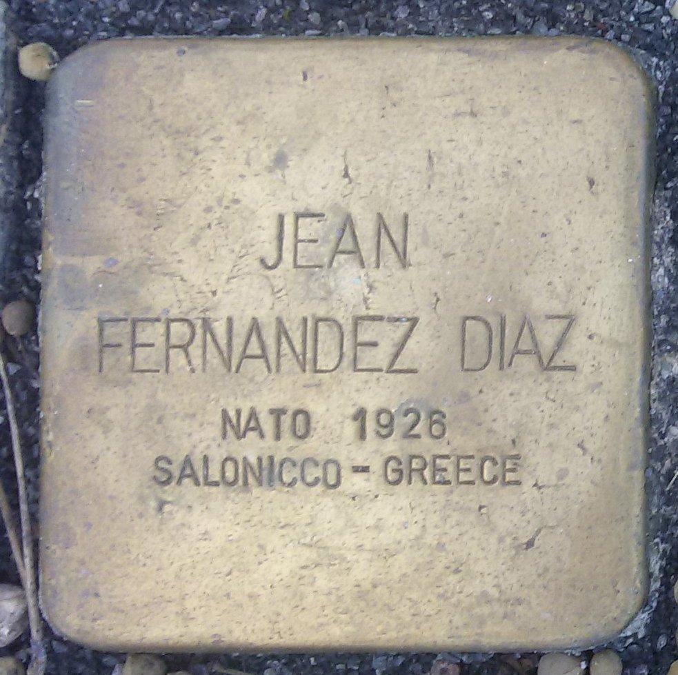 Stolperstein in Meina (NO) Italy